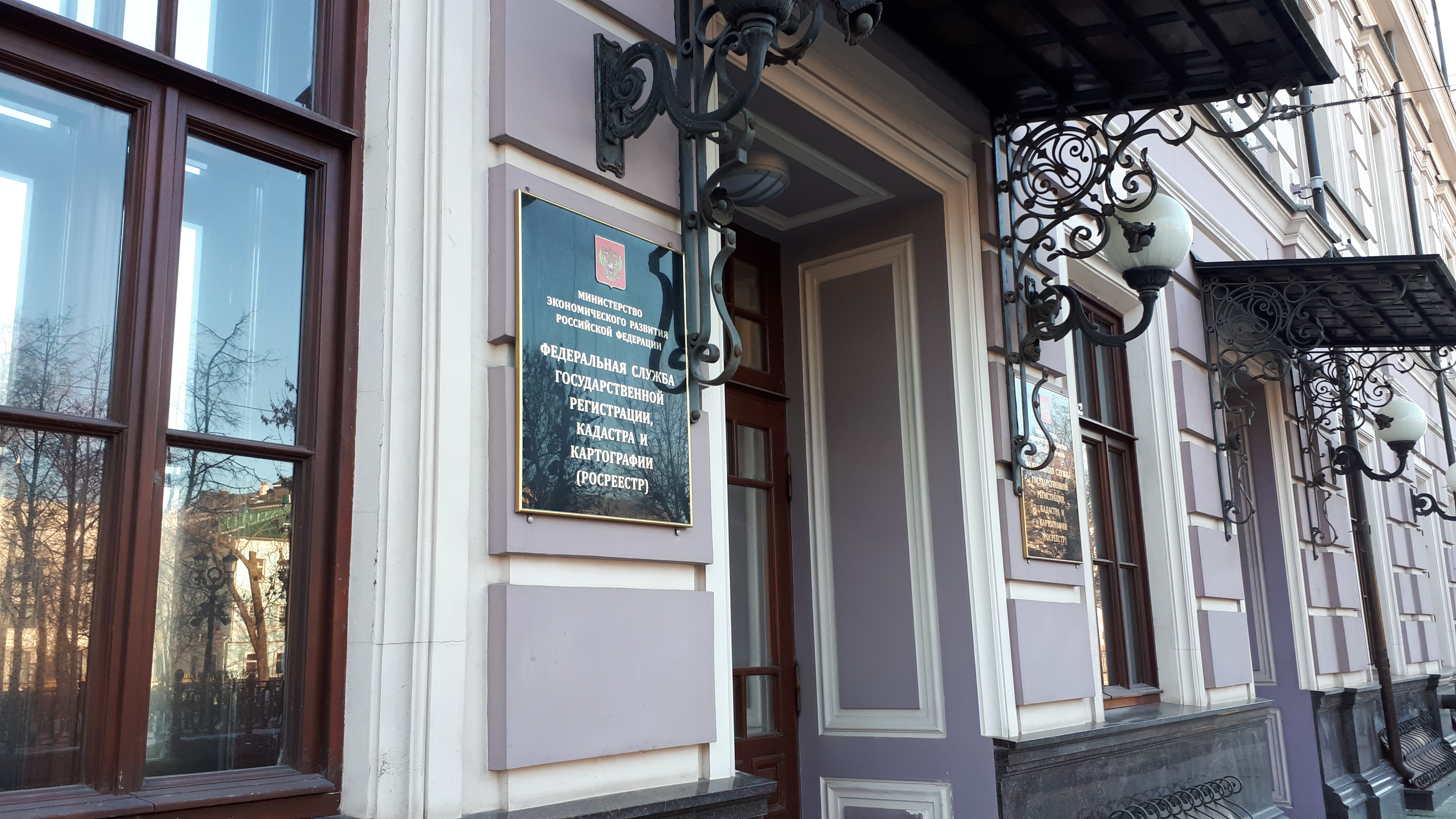 Federal Service for State Registration, Cadastre and Mapping